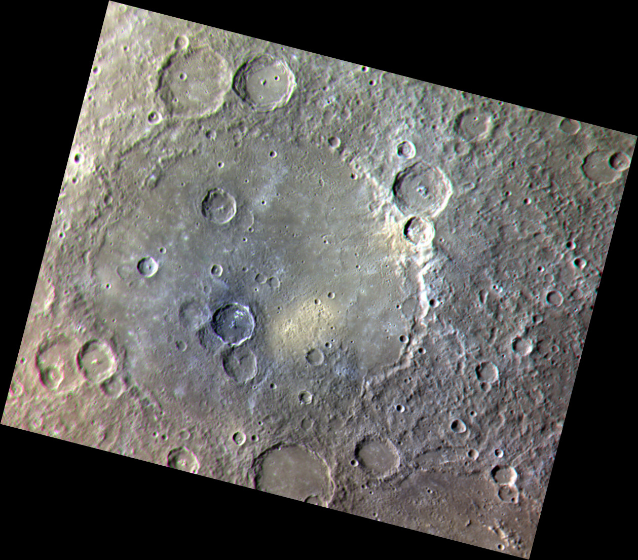 Raphael crater (basin) on Mercury. Approximate color representation combining three images acquired by MESSENGER Wide Angle Camera (EW0228761216I,, EW0228761220F, EW0228761236G) with I (996.2 nm), G (748.7 nm), and F (433.2 nm) filters. Combined in GIMP software as RGB (Red-Green-Blue), and then stretched to approximately correct for the oblique angle, and rotated so that north is up. Statistics for I image: Emission Angle: 28.8 Incidence Angle: 56.5 Latitude: -20.0 Longitude: 285.6 Phase Angle: 85.3